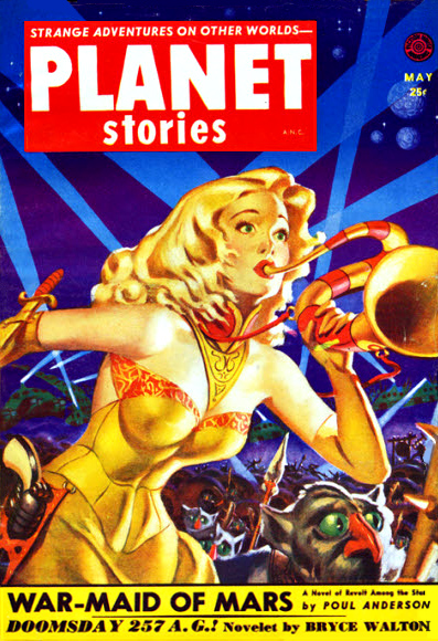 Cover of Planet Stories, May 1952. Artwork by Allen Anderson.